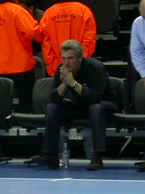 Claude Onesta